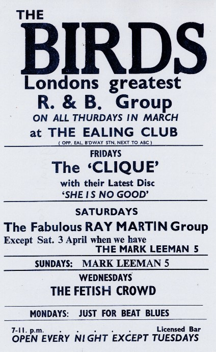 The Birds (band) poster. Playbill advertising band concert.